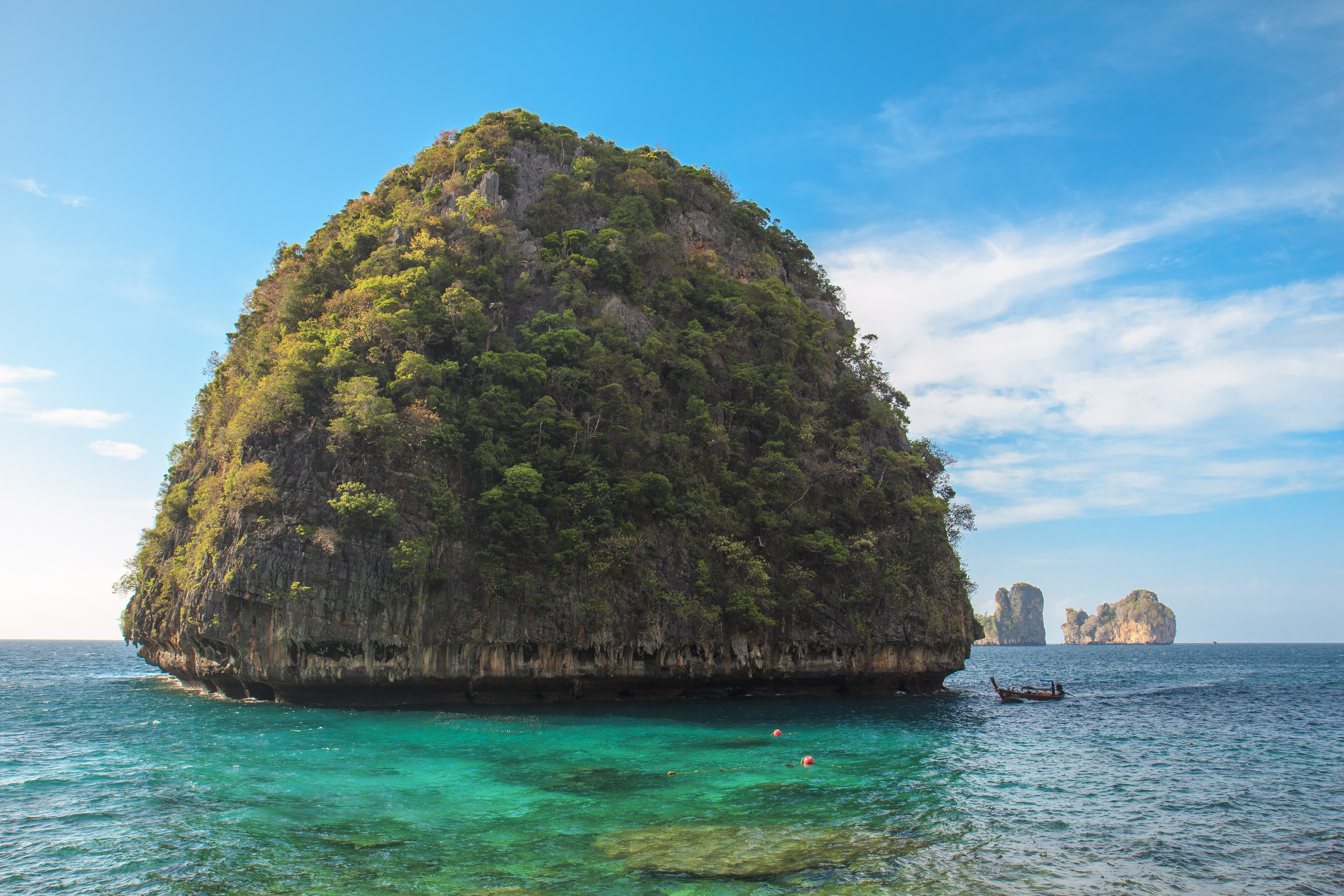 The boulder of the Loh Samah bay at Koh Phi Phi Leh